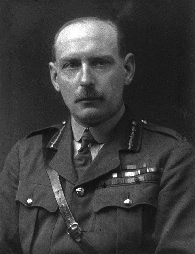 bromide print, 1919